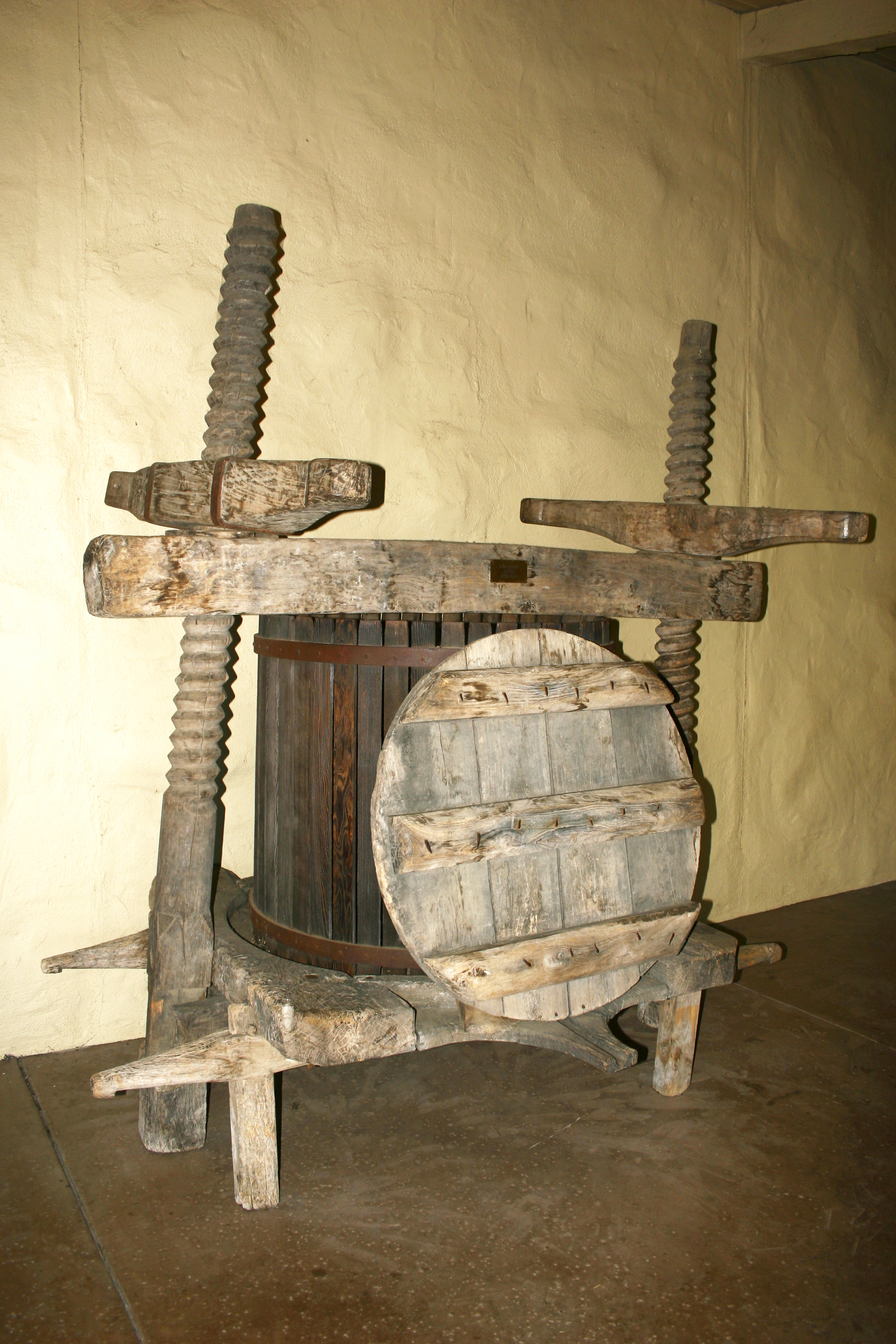 example of an old basket wine press